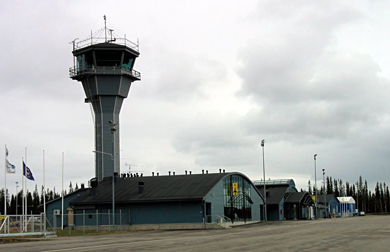 Kittilä Airport Terminal in Kittilä, Finland, before the fire in July 2006.